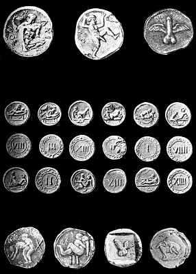 19th century engraving of "Spintriae" purportedly found in Pompeii.